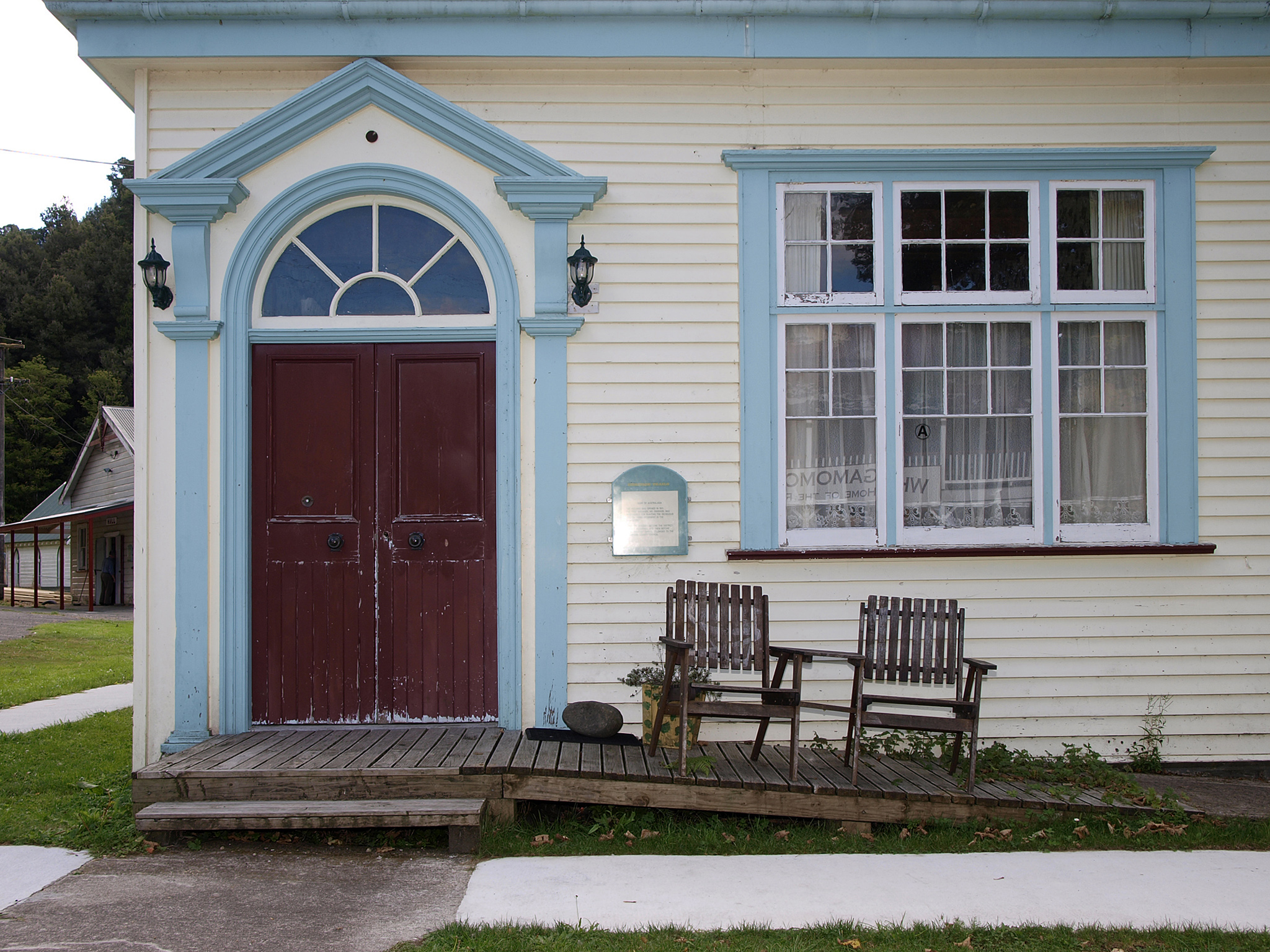 Bank of Australasia in Whangamomona, Stratford District, New Zealand (build 1911)